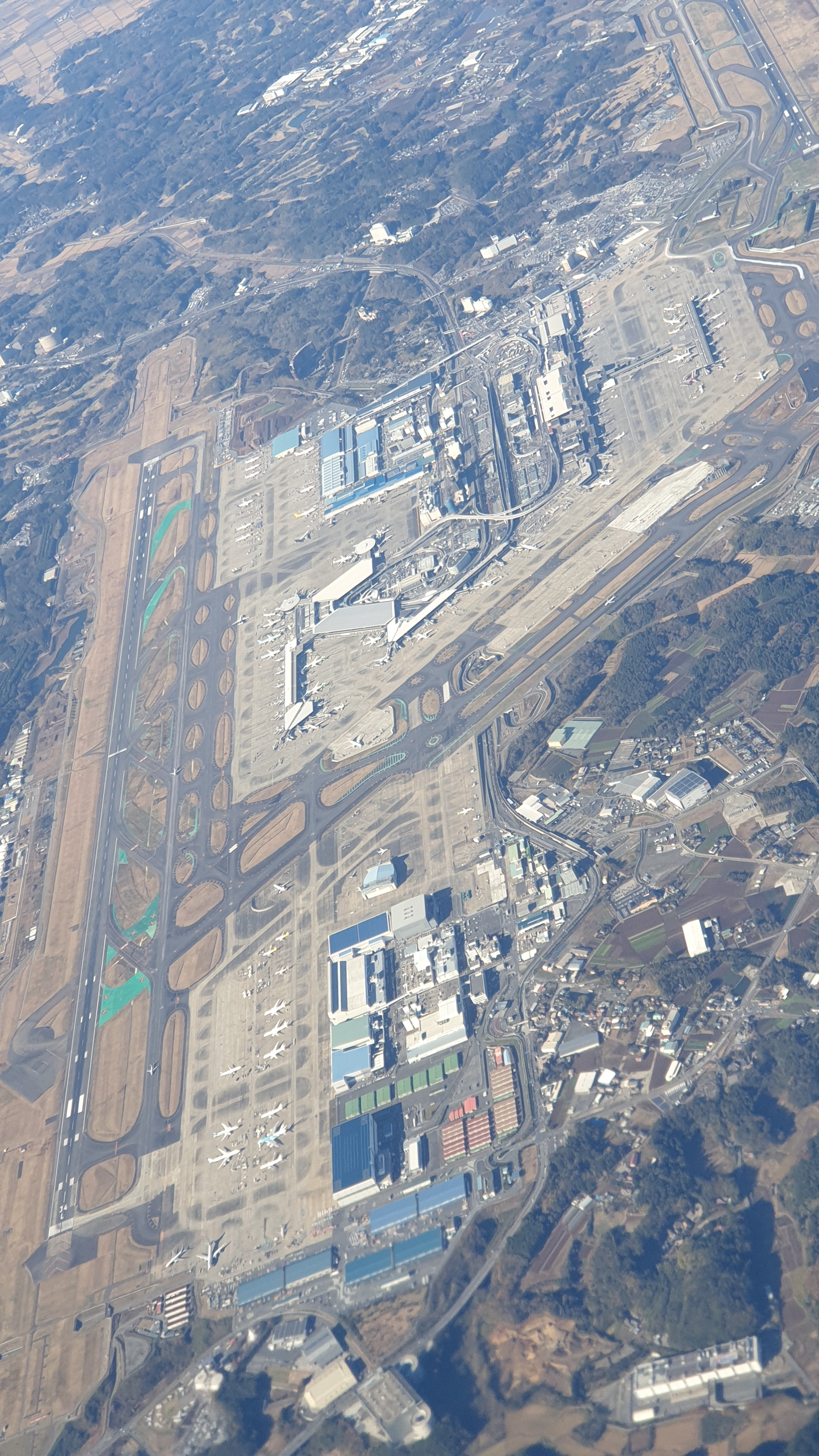 Aerial view of Narita Airport - Dec 2019